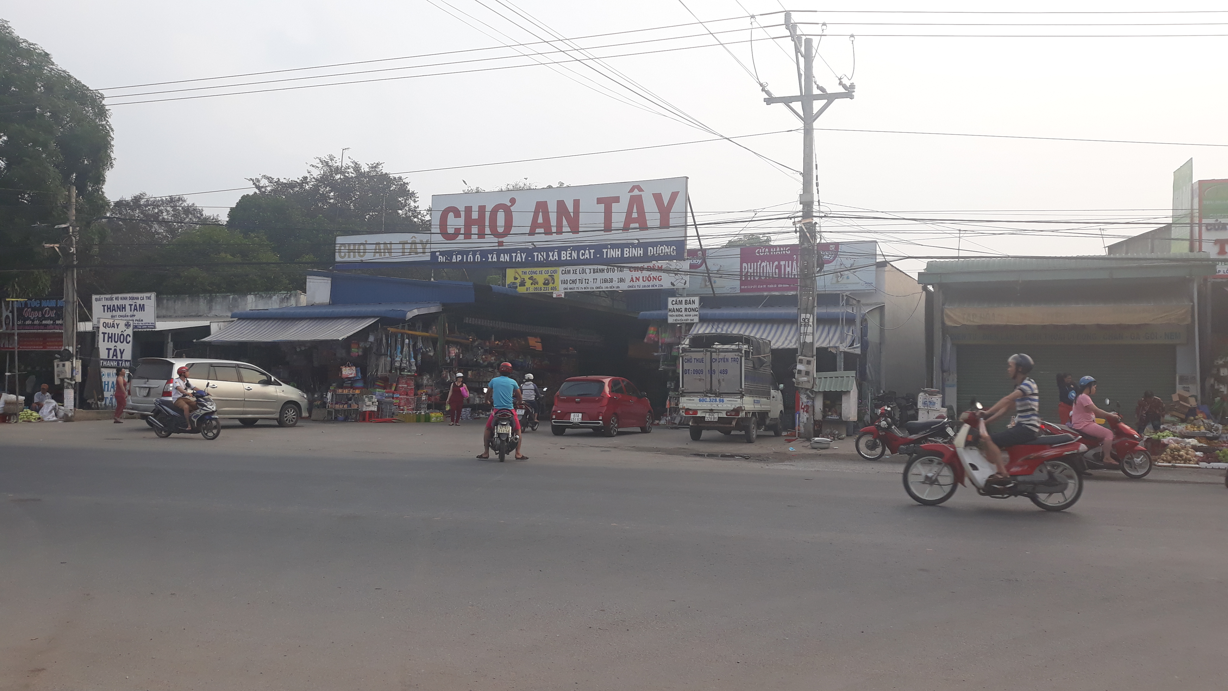 An Tay Market, Ben Cat Town